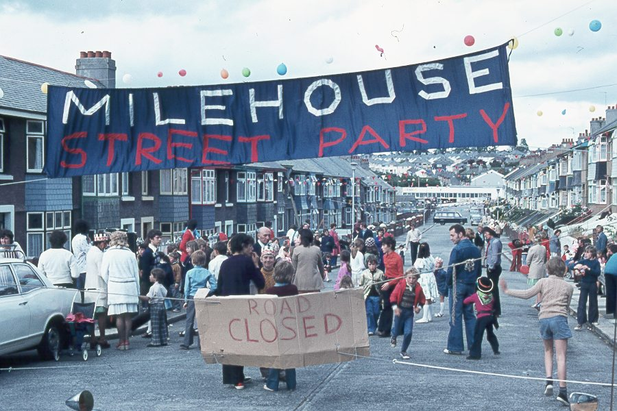 Street party at Fullerton Rd, Plymouth, for the Silver Jubilee.